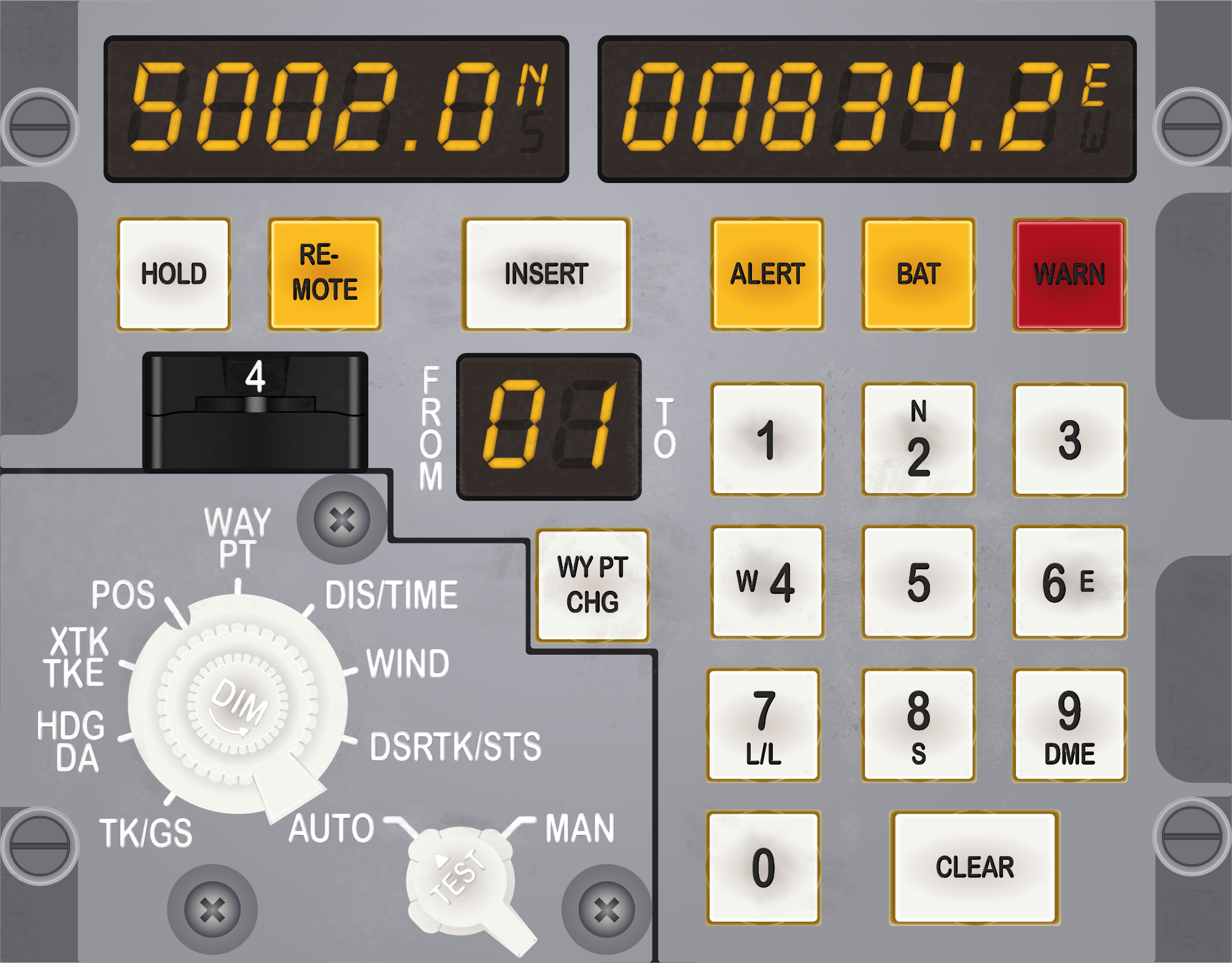 Control and Display Unit (CDU) of a Delco Carousel IV-A Inertial Navigation System (Computer illustration).